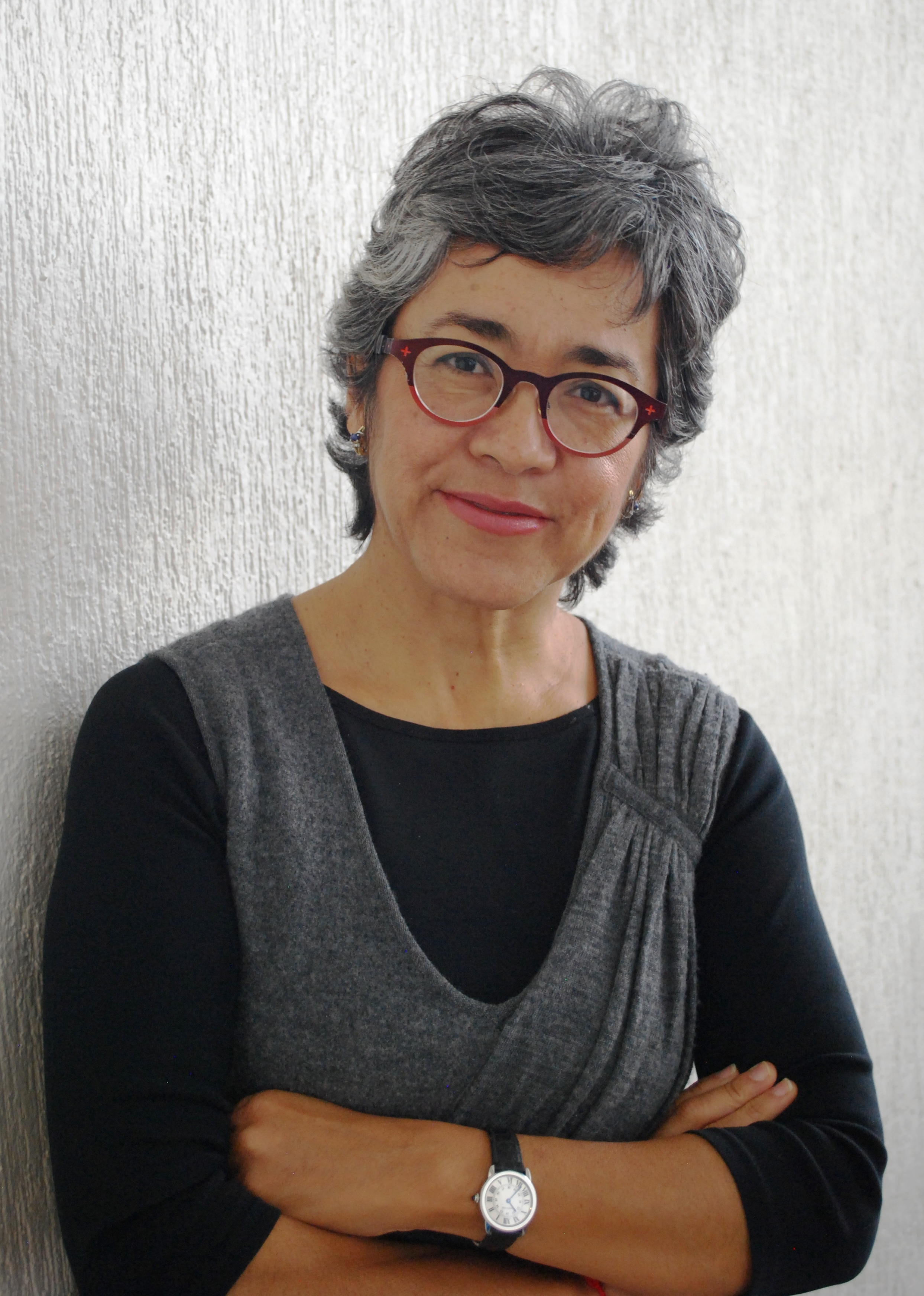 Cristina Rivera Garza, taken at Tec de Monterrey, Campus Ciudad de Mexico